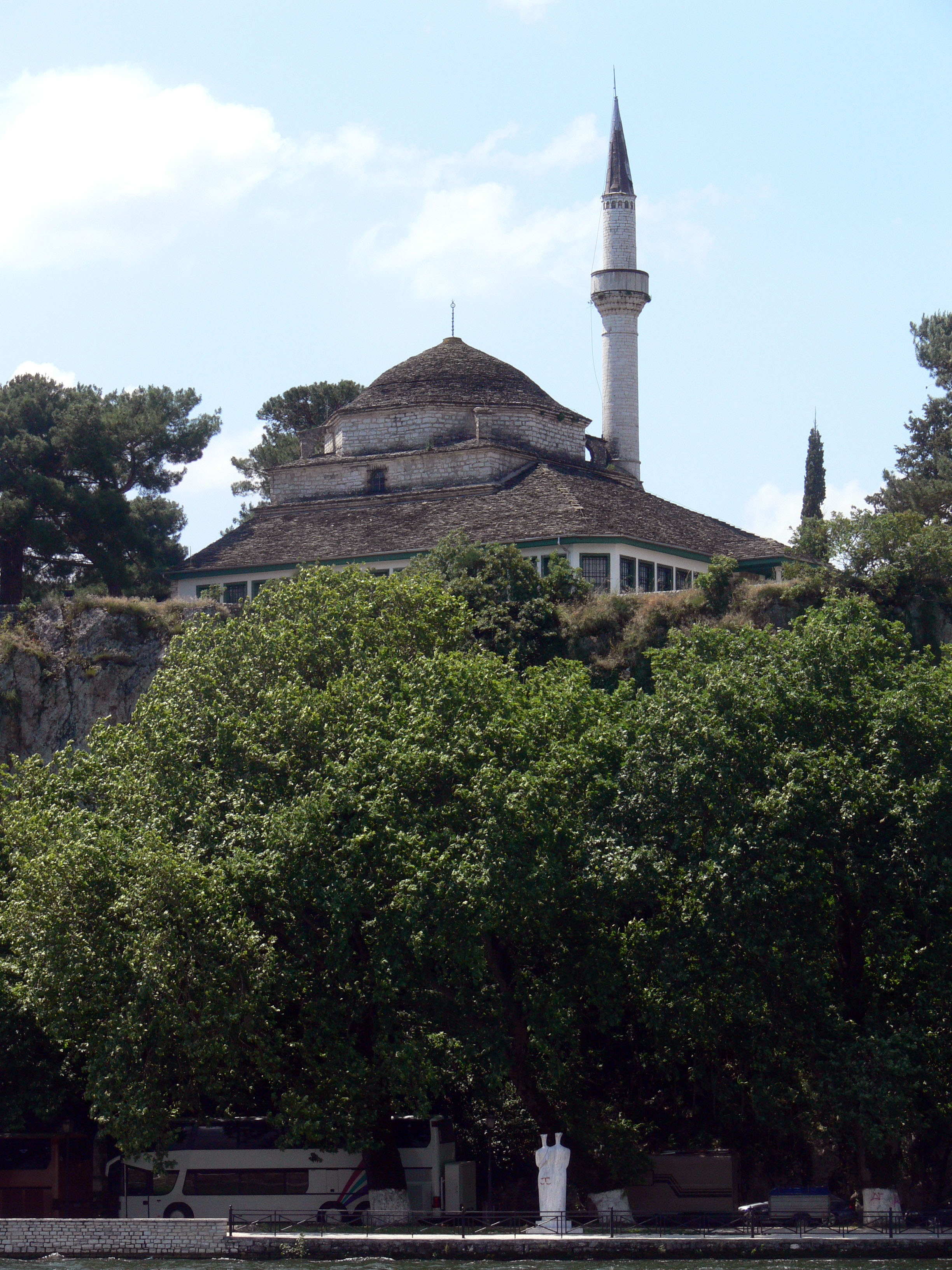 Aslan-Moschee in Joannina